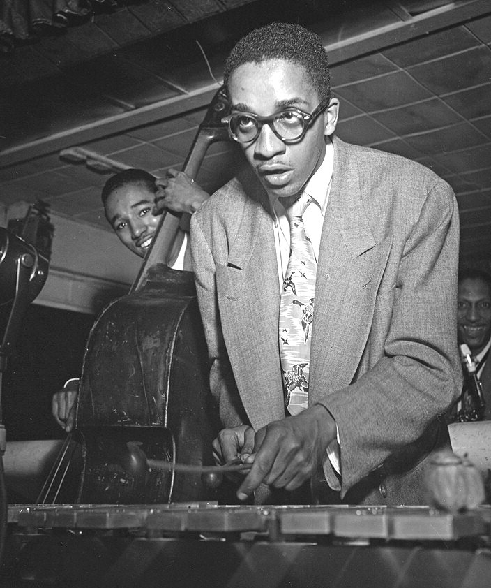 Milt Jackson and Ray Brown, New York, between 1946 and 1948 (photographed by William Gottlieb)